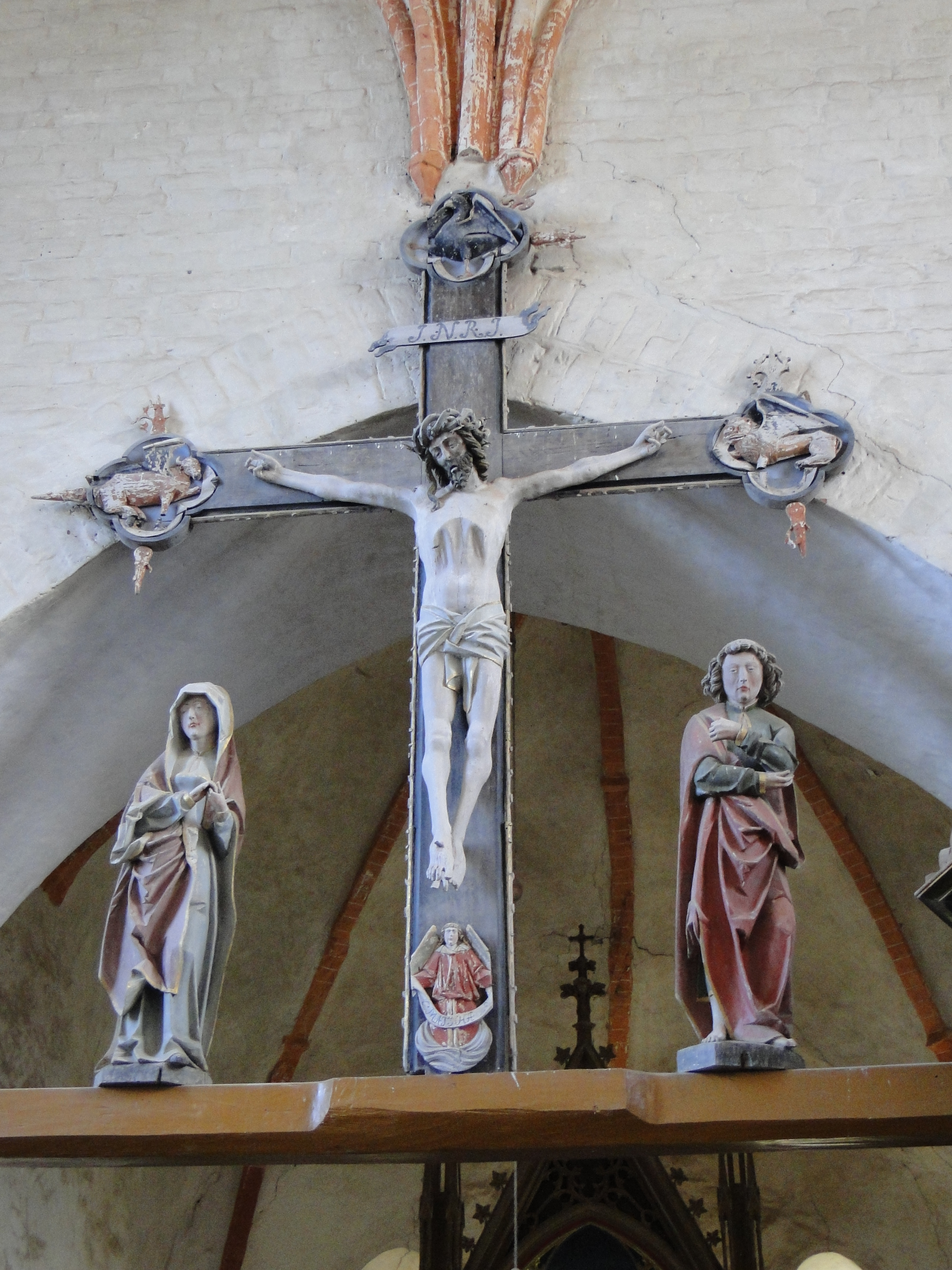 Church in Mestlin, district Ludwigslust-Parchim, Mecklenburg-Vorpommern, Germany Crucifix